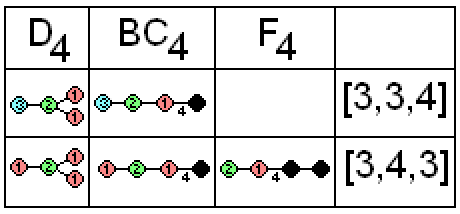 Coxeter-Dynkin diagram table